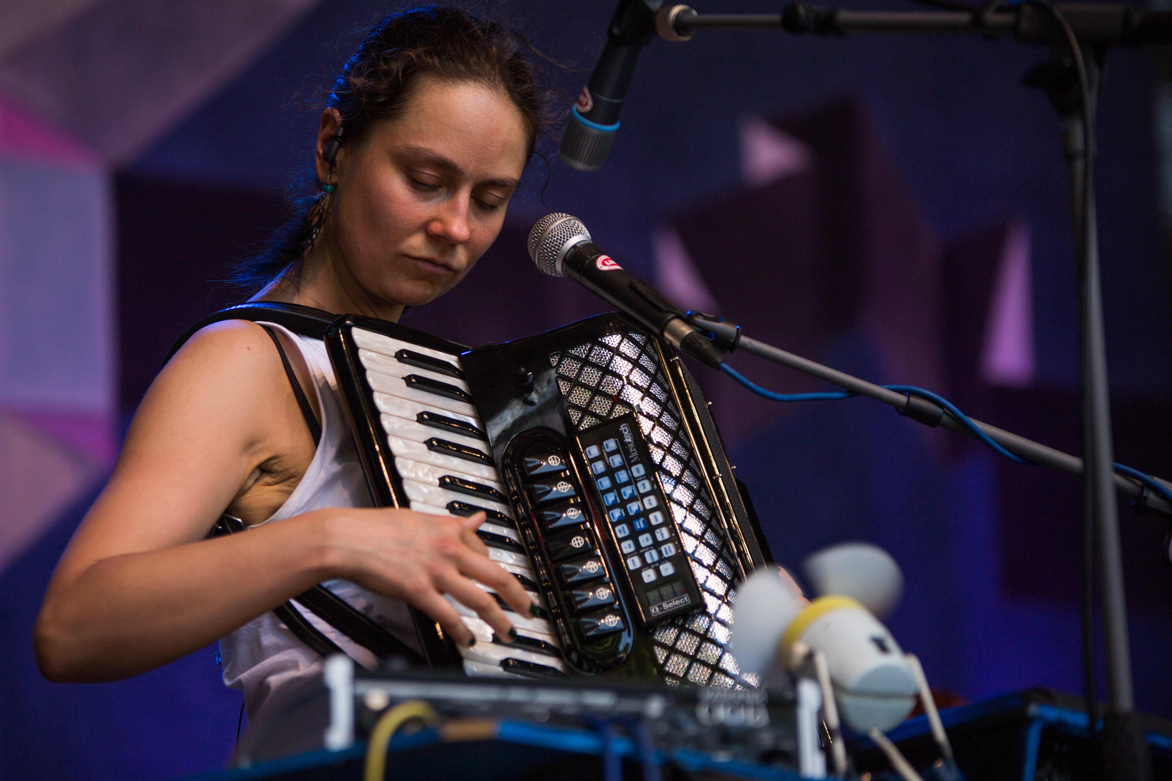 Karolina Cicha TTF.Rudolstadt 2015 Festivalsommer This photo was created with the support of donations to Wikimedia Deutschland in the context of the CPB project "Festival Summer".